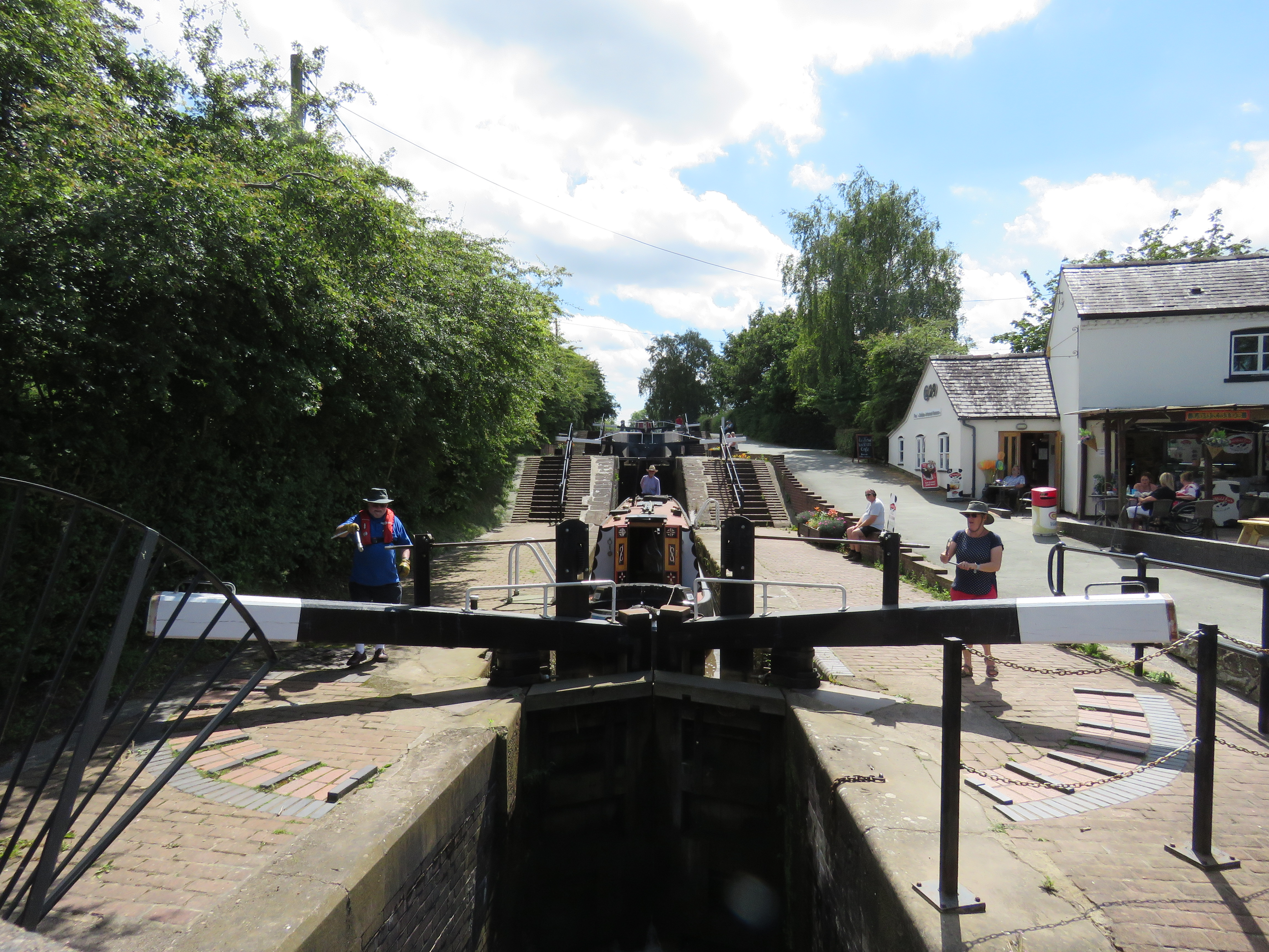 Grindley Brook locks, Llangollen Canal, Shropshire